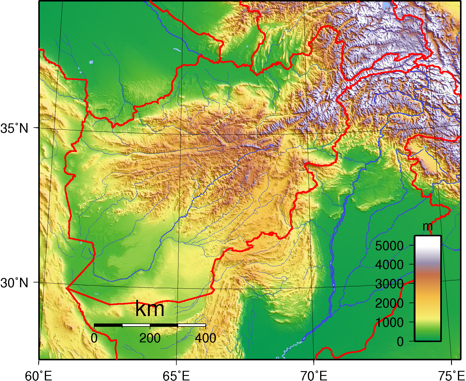 Topography of Afghanistan. Created with GMT from SRTM data.